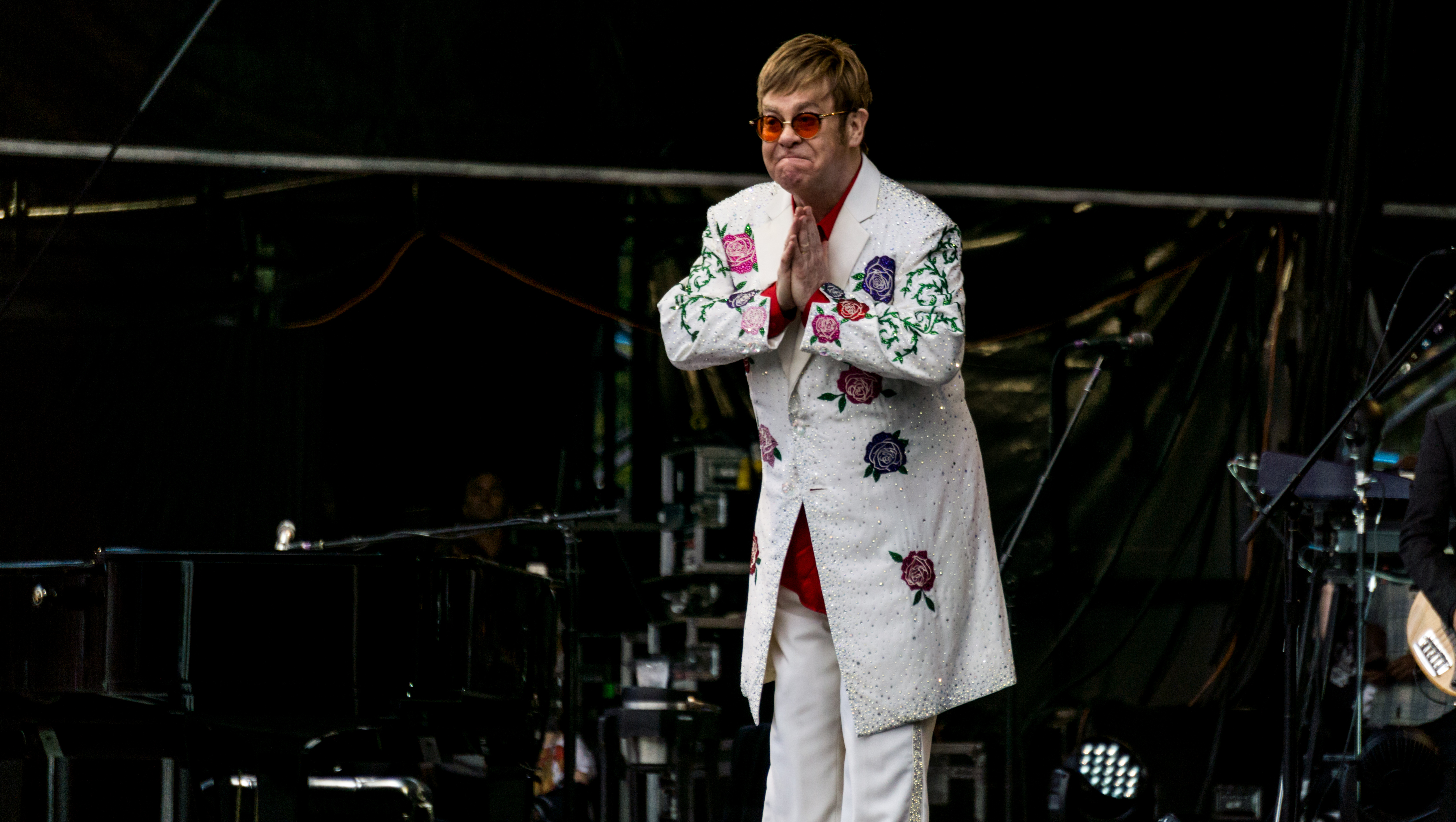 EltonTwicStoop030617-7